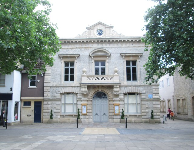 Whitney Corn Exchange - High Street